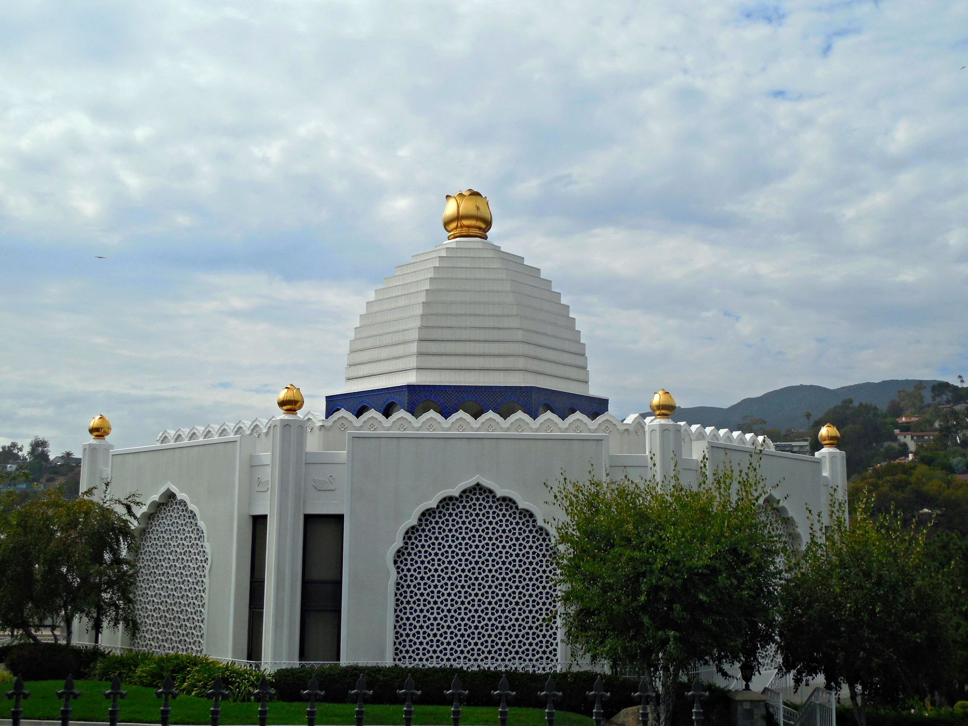 Self-Realization Fellowship Lake Shrine Temple (Built in 1996).